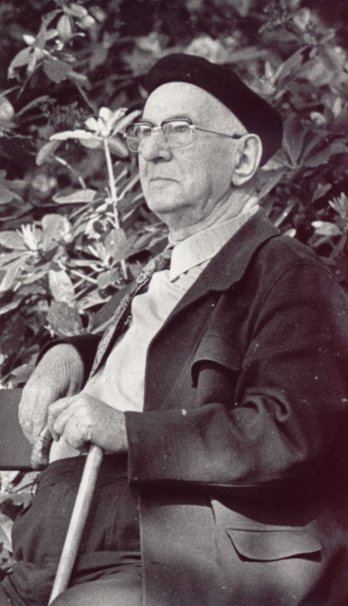 Jan ten Berge in the Berchmanianum in Nijmegen, The Netherlands.